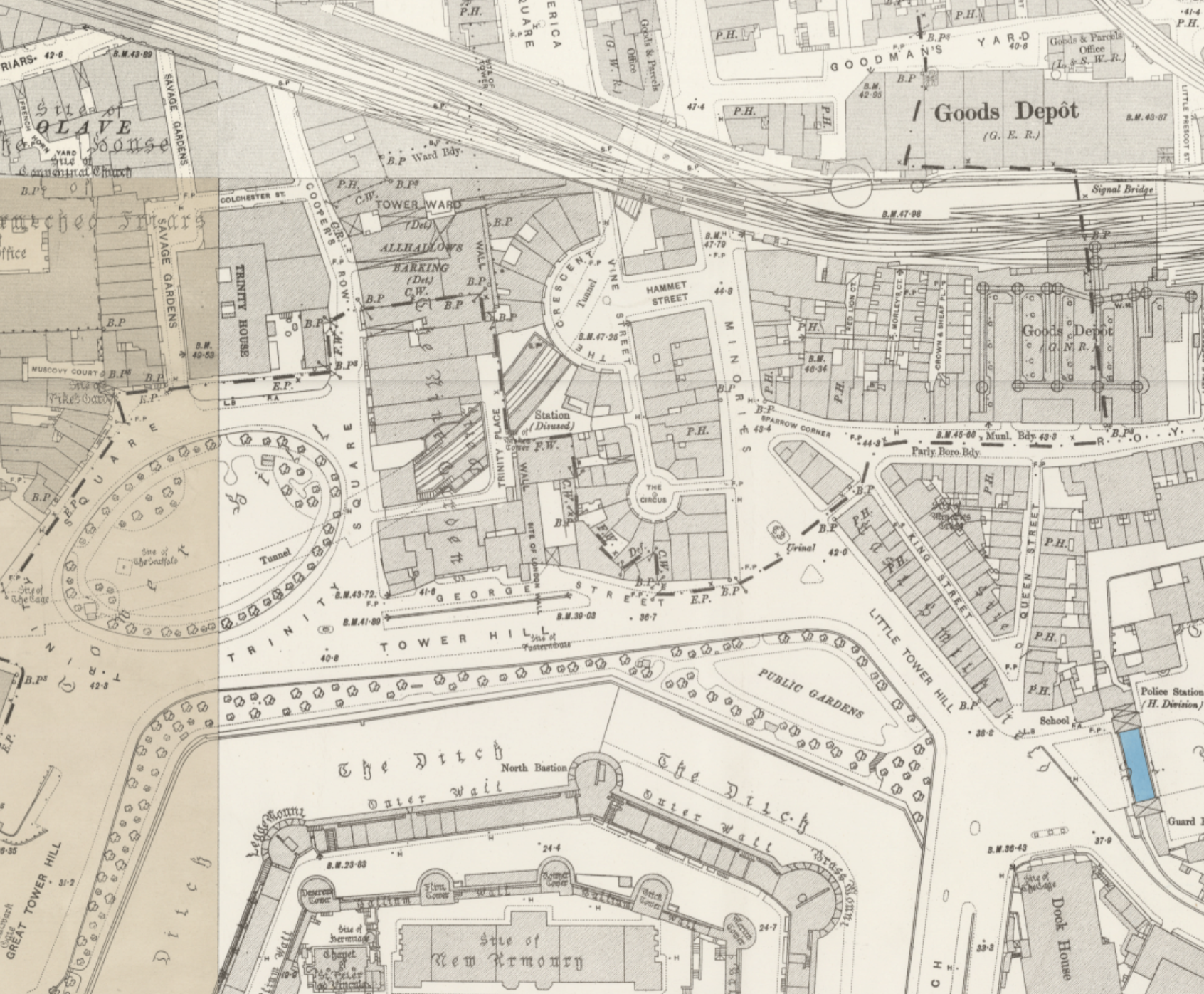 Closed London Underground station Tower of London on an Ordnance Survey Map.